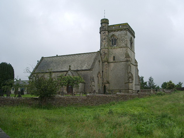 St Peter's parish church, Quernmore, Lancashire, seen from the north